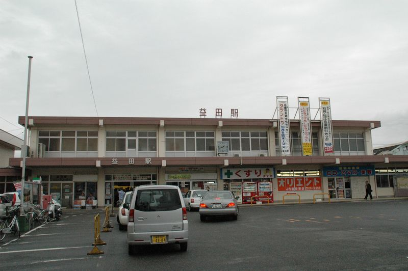 Masuda Station, San'in Main Line, West Japan Railway Company.